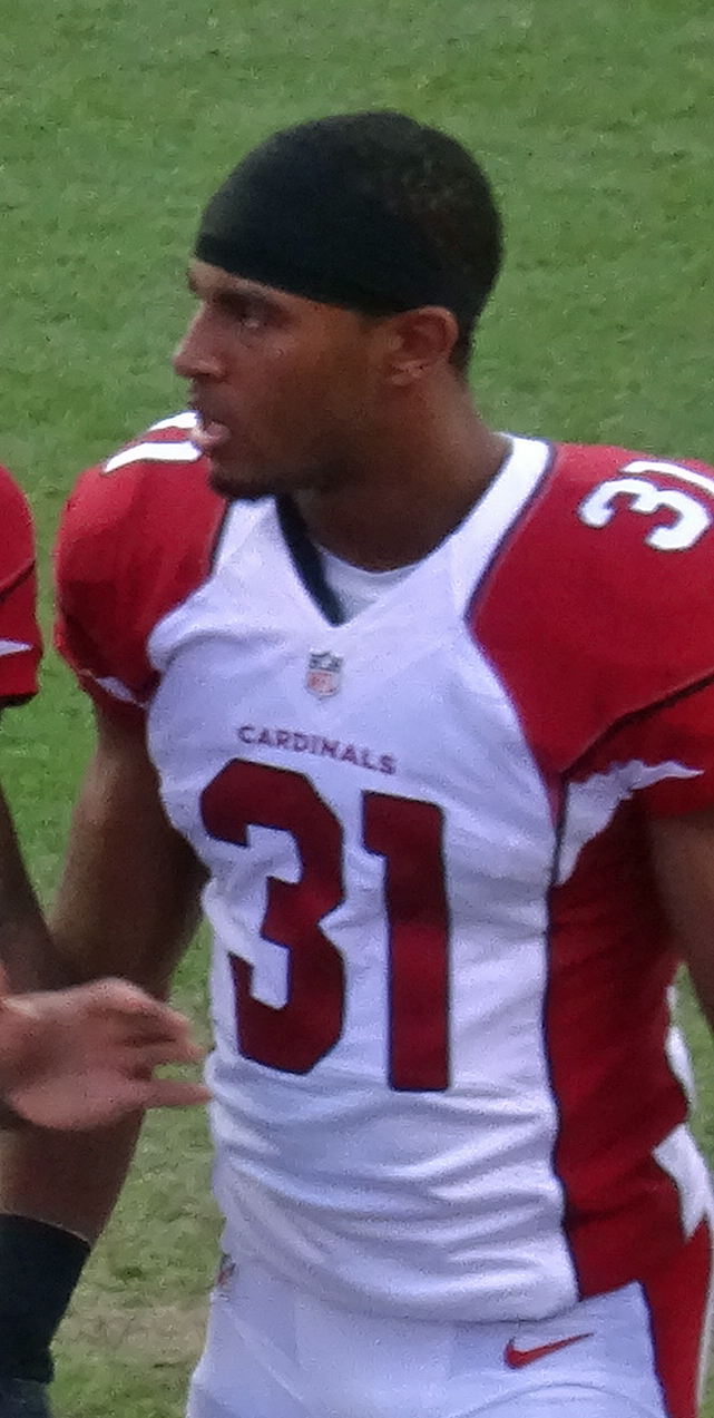 Justin Bethel, a player on the National Football League.